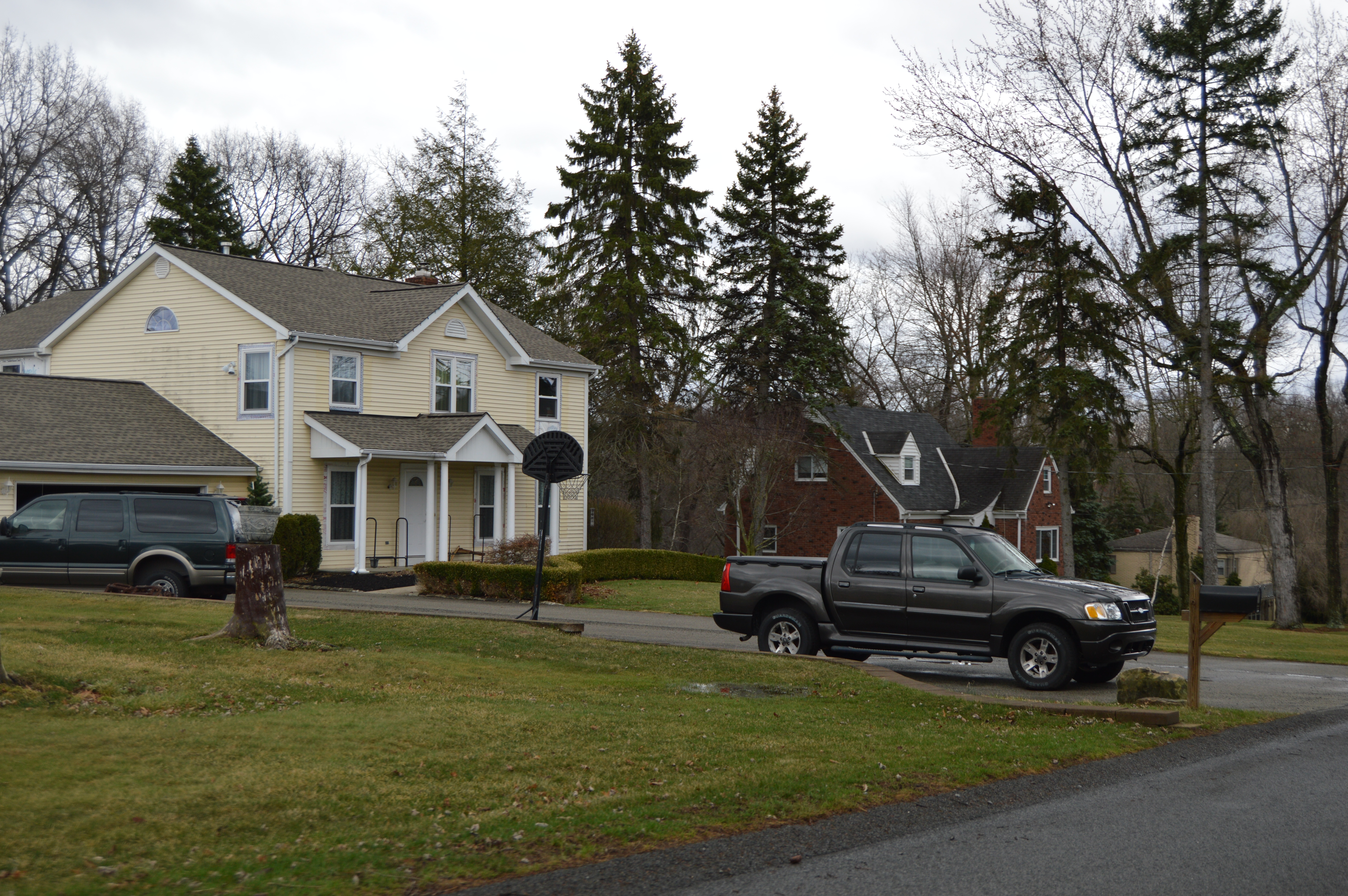 Houses on the eastern side of Venango Drive just east of the Arcadia Drive intersection in McCandless Township, Allegheny County, Pennsylvania, United States.